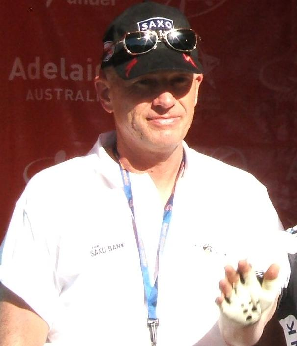 Named cyclist at the en:2009 Tour Down Under team presentation